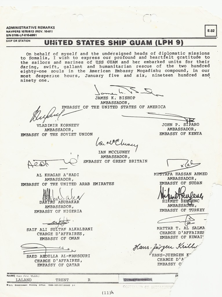 Letter of thanks to the crew of the USS Guam from James K. Bishop, US Ambassador to Somalia, and other heads of missions (ambassadors & charges d'affaires) who were evacuated from the US Embassy in Mogadishu, Somalia in Operation Eastern Exit. Helicopters from the USS Guam evacuated 281 diplomats and civilians from several nations on January 5-6, 1991 after fighting escalated in Mogadishu around New Year's 1991, promoting remaining foreign diplomatic missions (ie. embassies) in Mogadishu to close. The evacuees were taken to Oman, where they disembarked on 11 January. Of note was the US evacuation of diplomats from the Soviet Embassy, who first found refuge in the US Embassy and were then evacuated to the USS Guam.